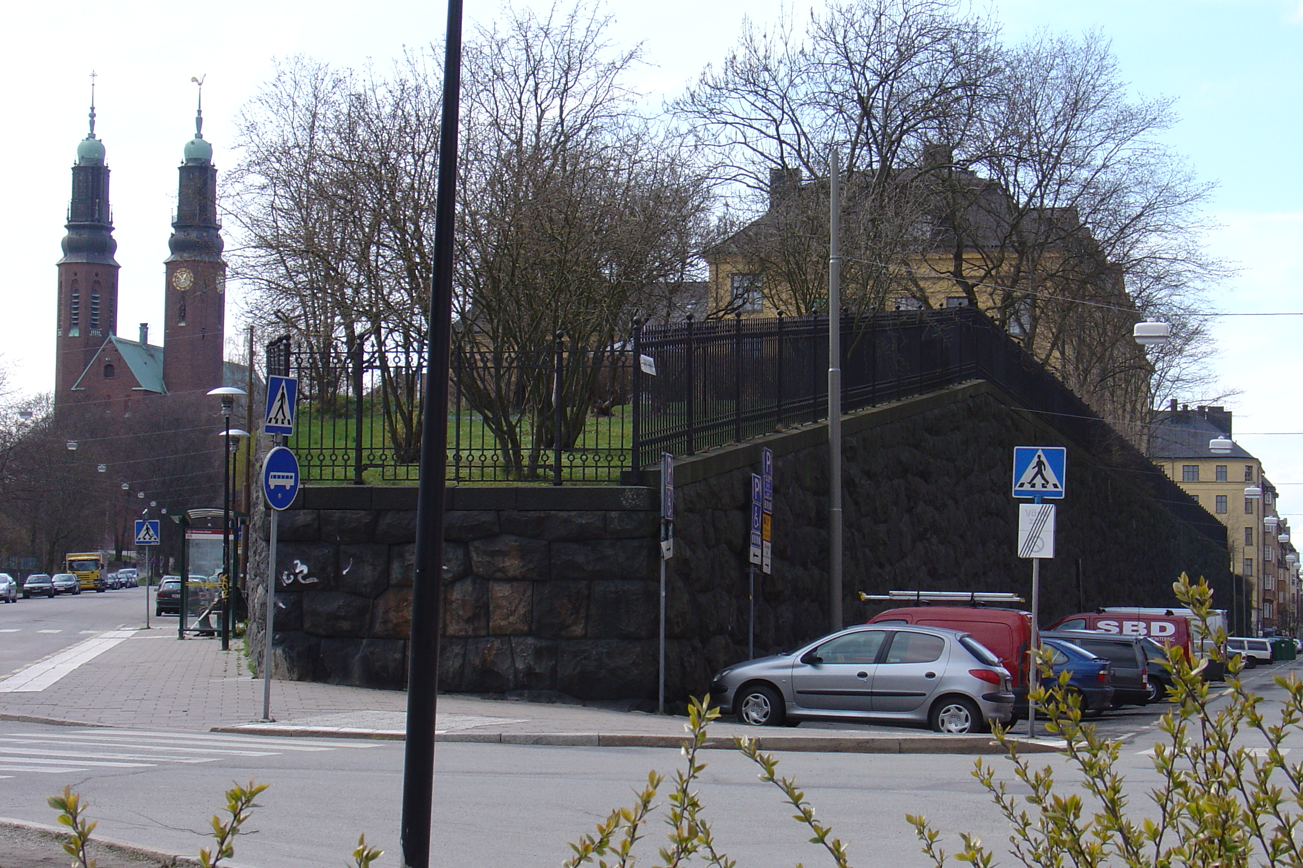 Heleneborgsgatan Stockholm